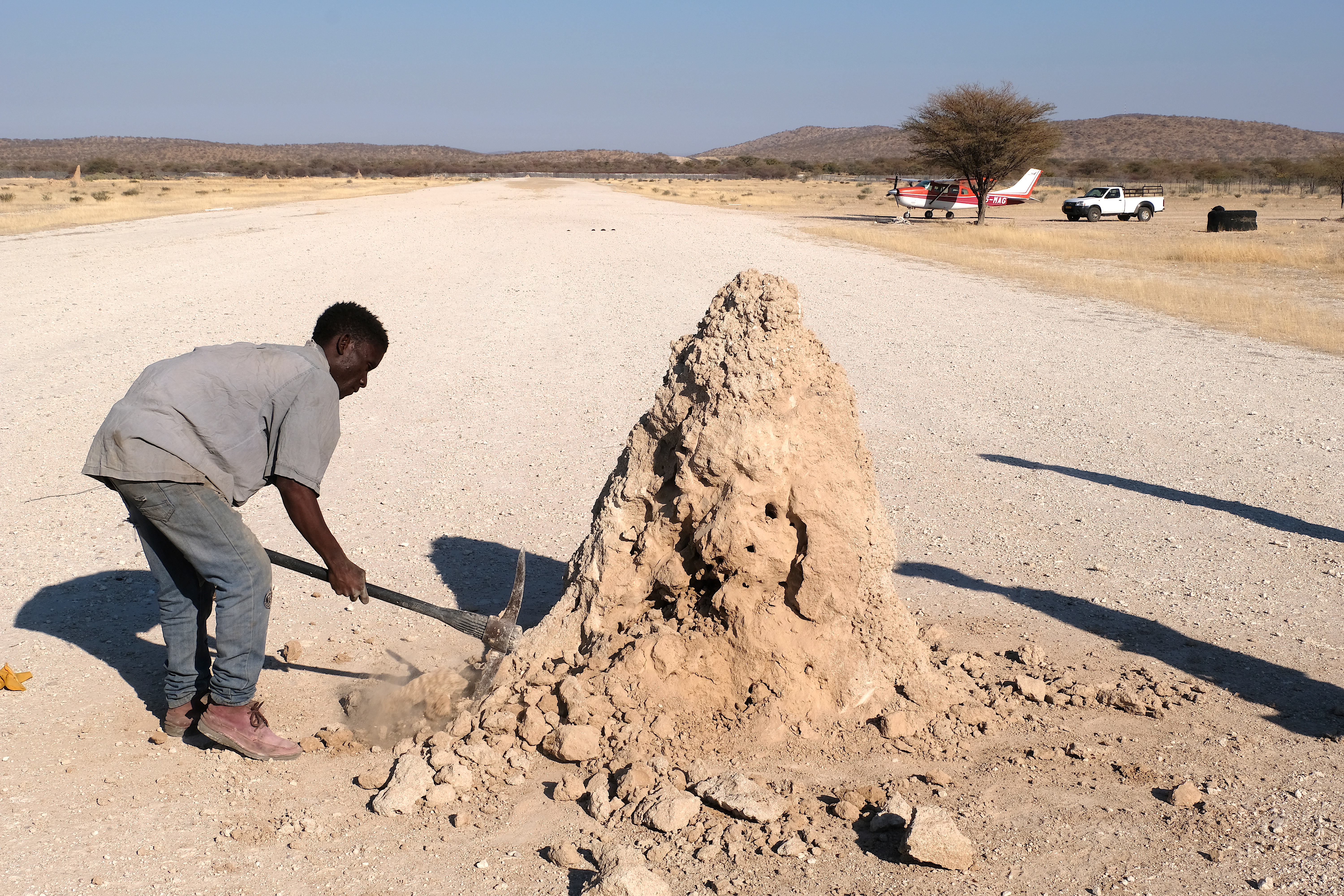 Termite mound on runway at Khorixas (2018)